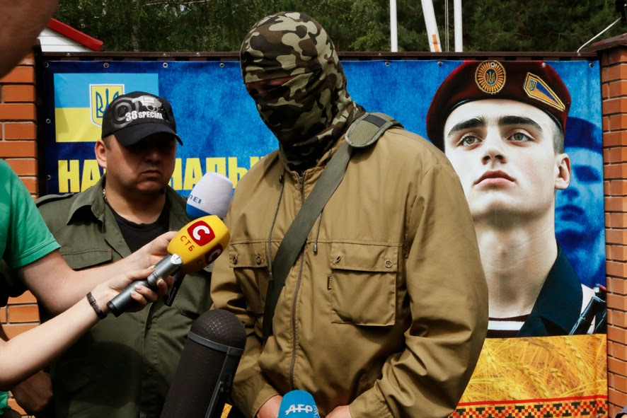 Commanding officer of Donbass Battalion — Semen Semenchenko.